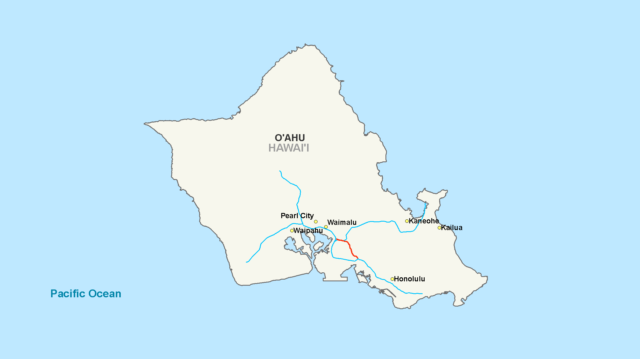 Map of Interstate H2